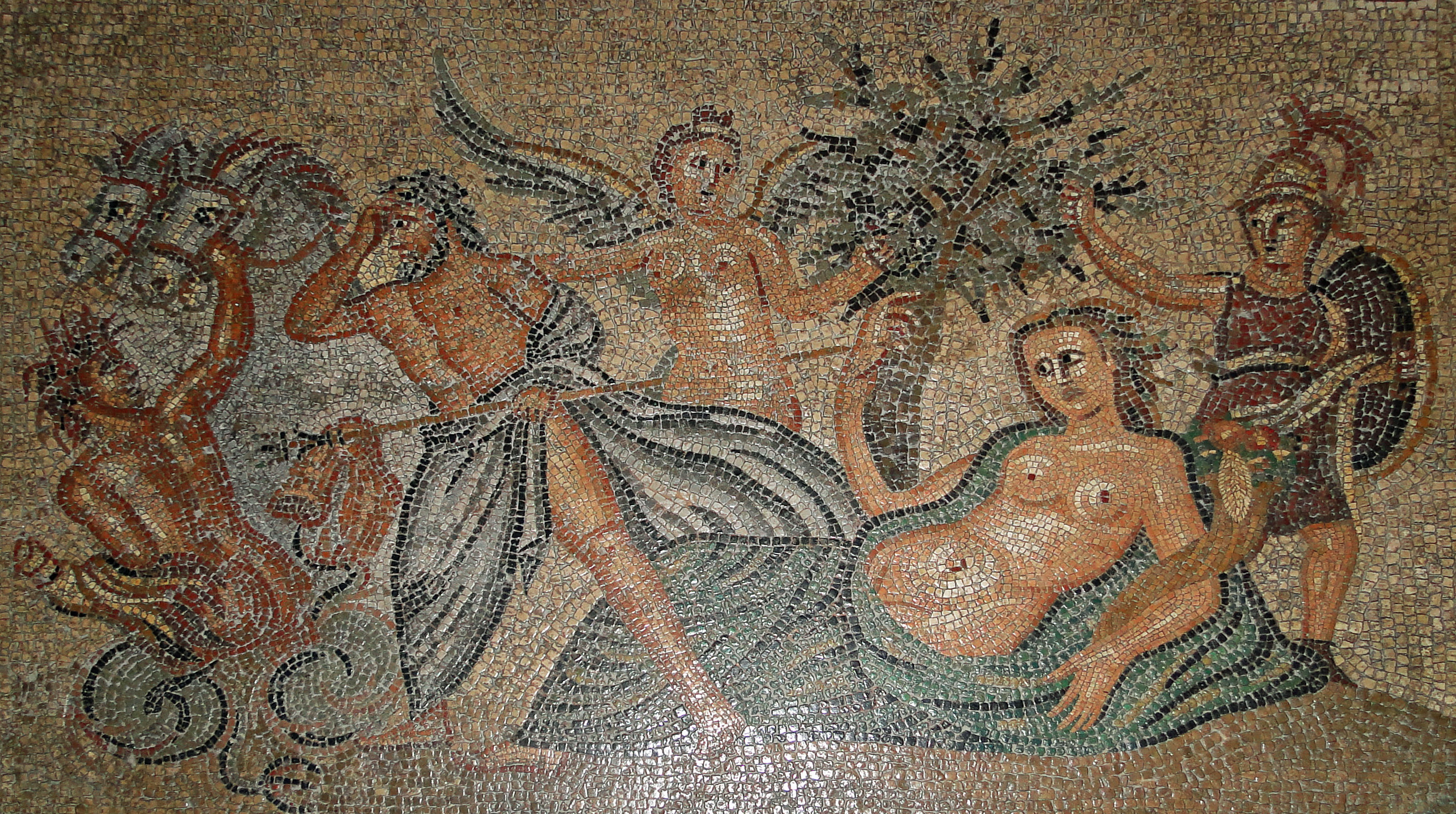 Mosaic of Poseidon and the Giant Polybotes in the Palace of the Grand Master, Rhodes, Greece